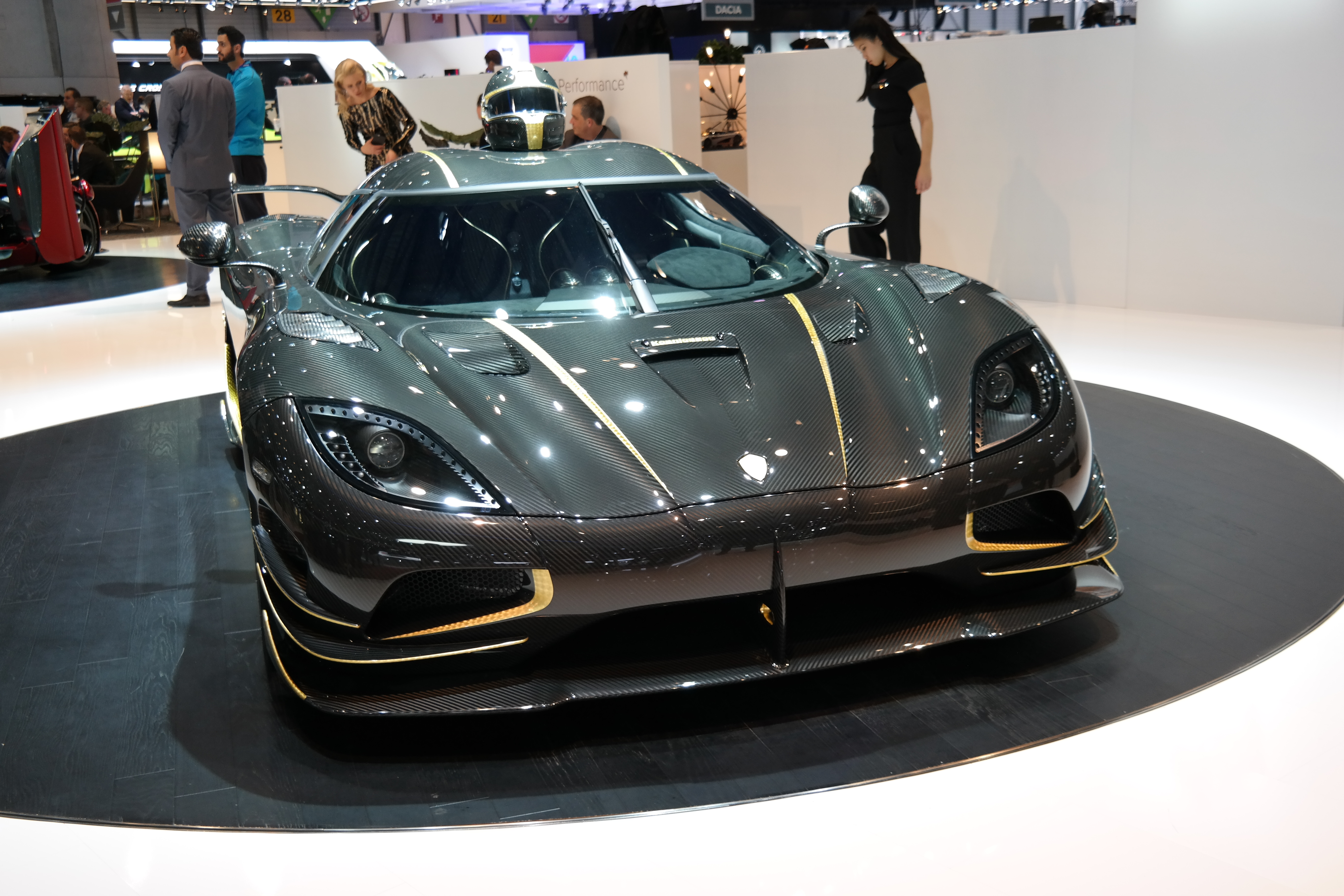 Geneva Motor Show 2017 (photo taken on the first press day)